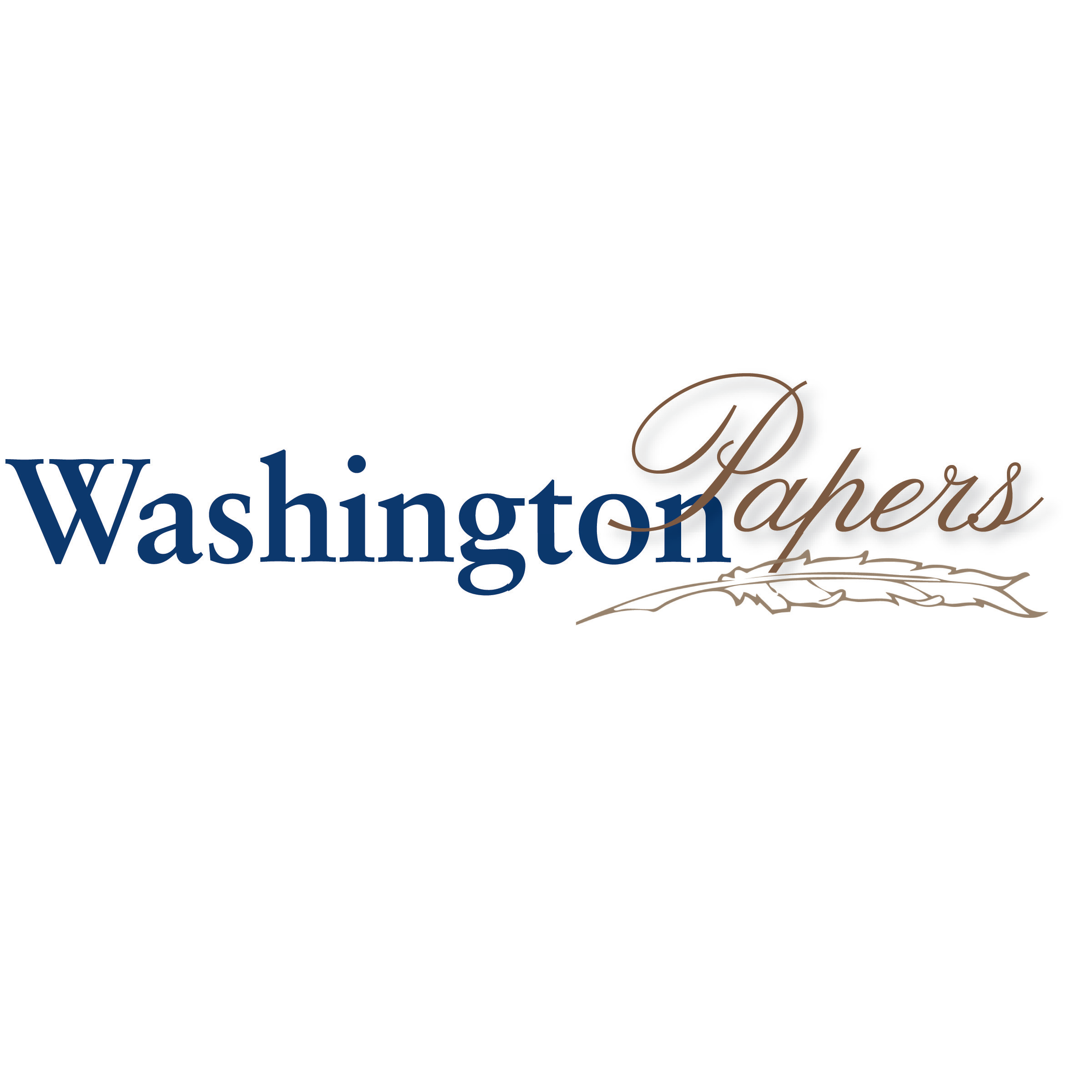 The logo of the Washington Papers documentary editing project in a square dimension.